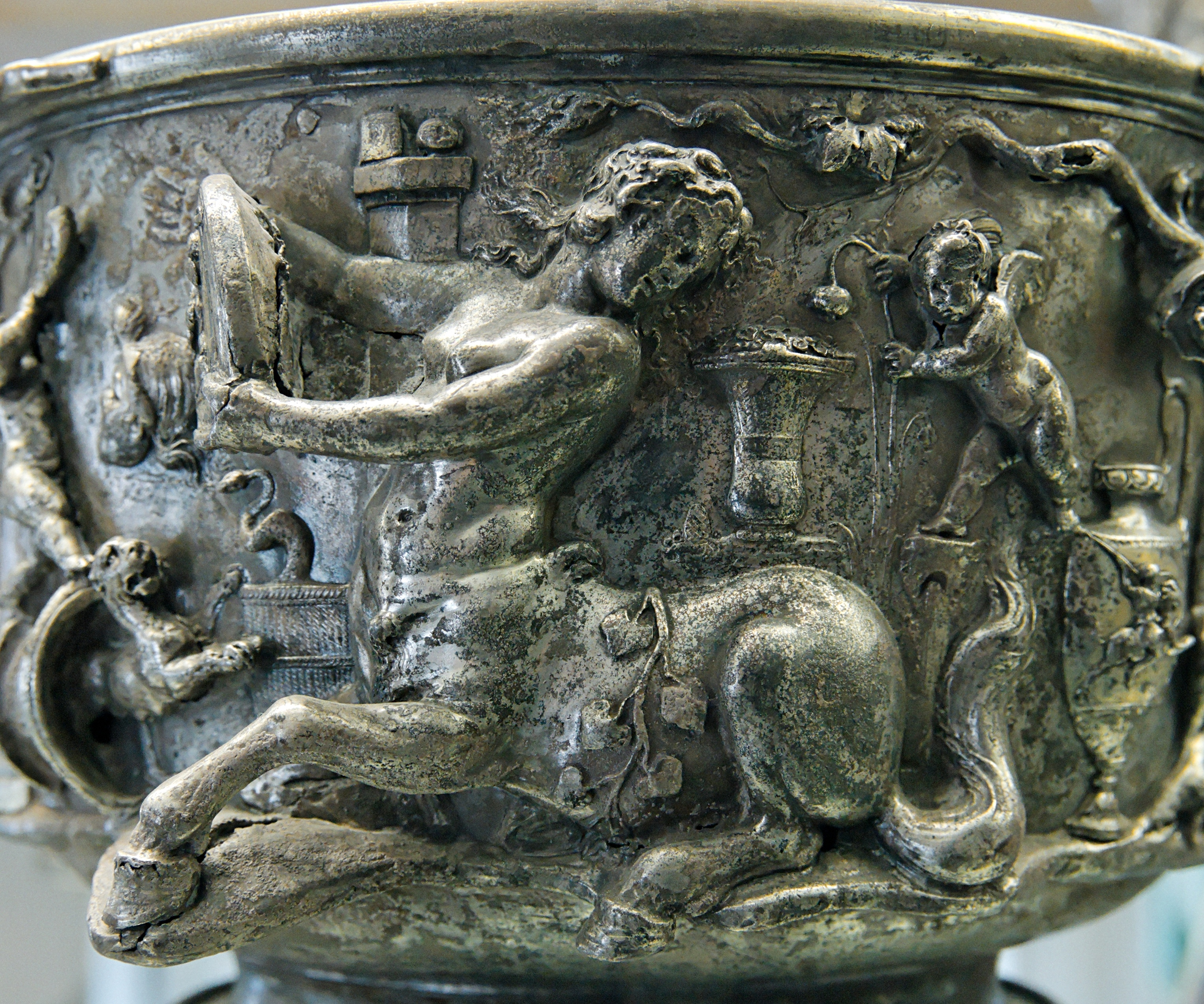 Revelling centauress and Erotes amidst tables and vases, detail from one of the Berthouville Centaur cups. From the Berthouville treasure, 1830.